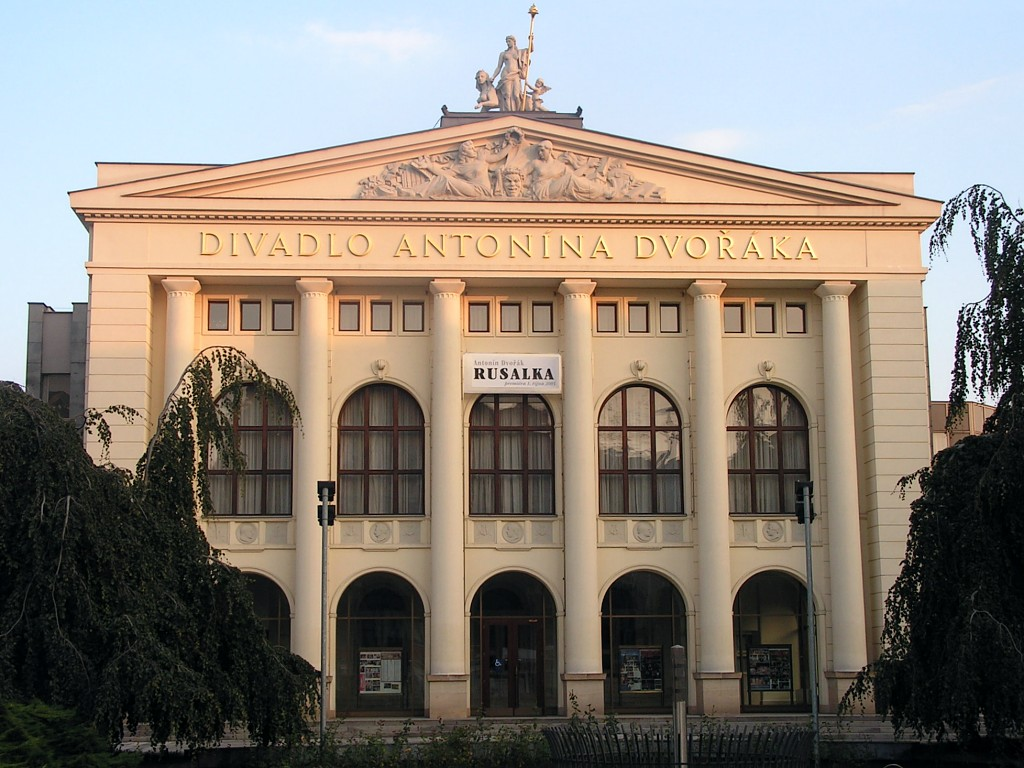 The Antonín Dvořák's Theathre in Ostrava.